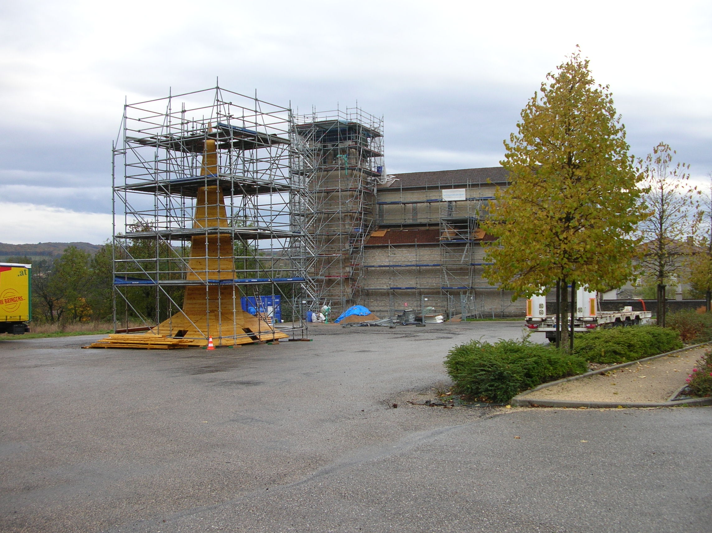 Badinières church